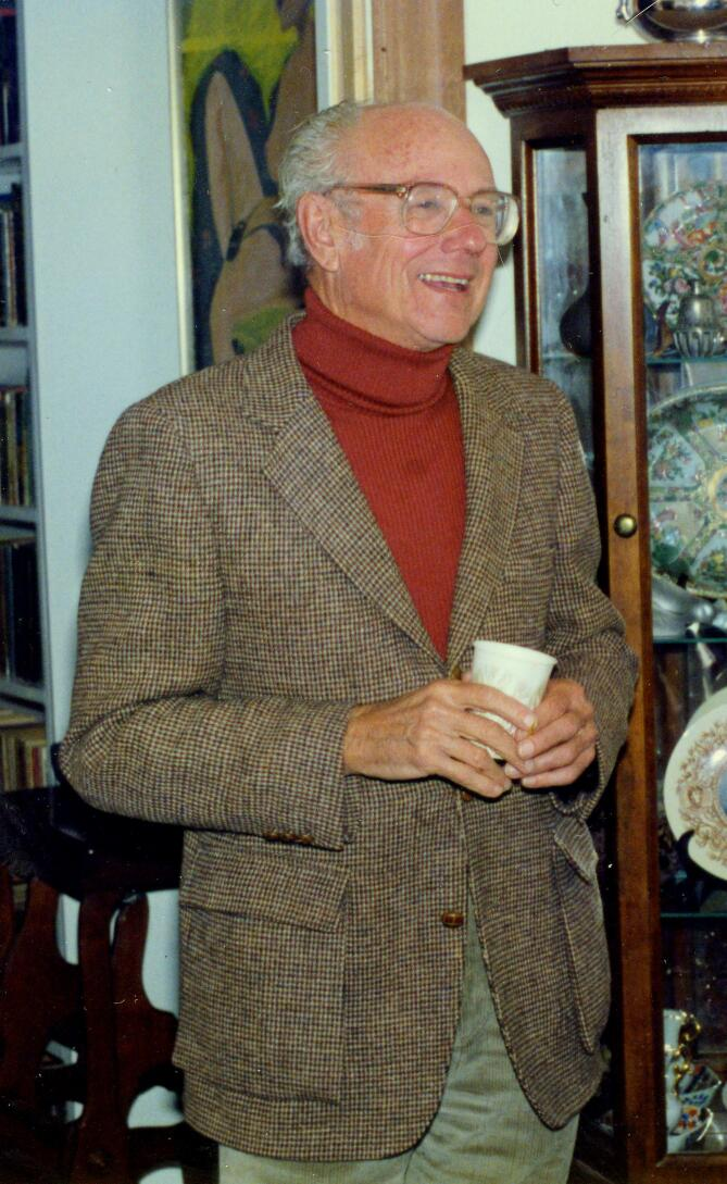 I took this picture in in San Francisco in 1991 with my Olympus OM-2 and edited it with Picasa2. I hereby release all rights to it. Anyone can use it for any purpose as long as they credit me as being the photographer. Hayford Peirce 23:48, 24 March 2006 (UTC)